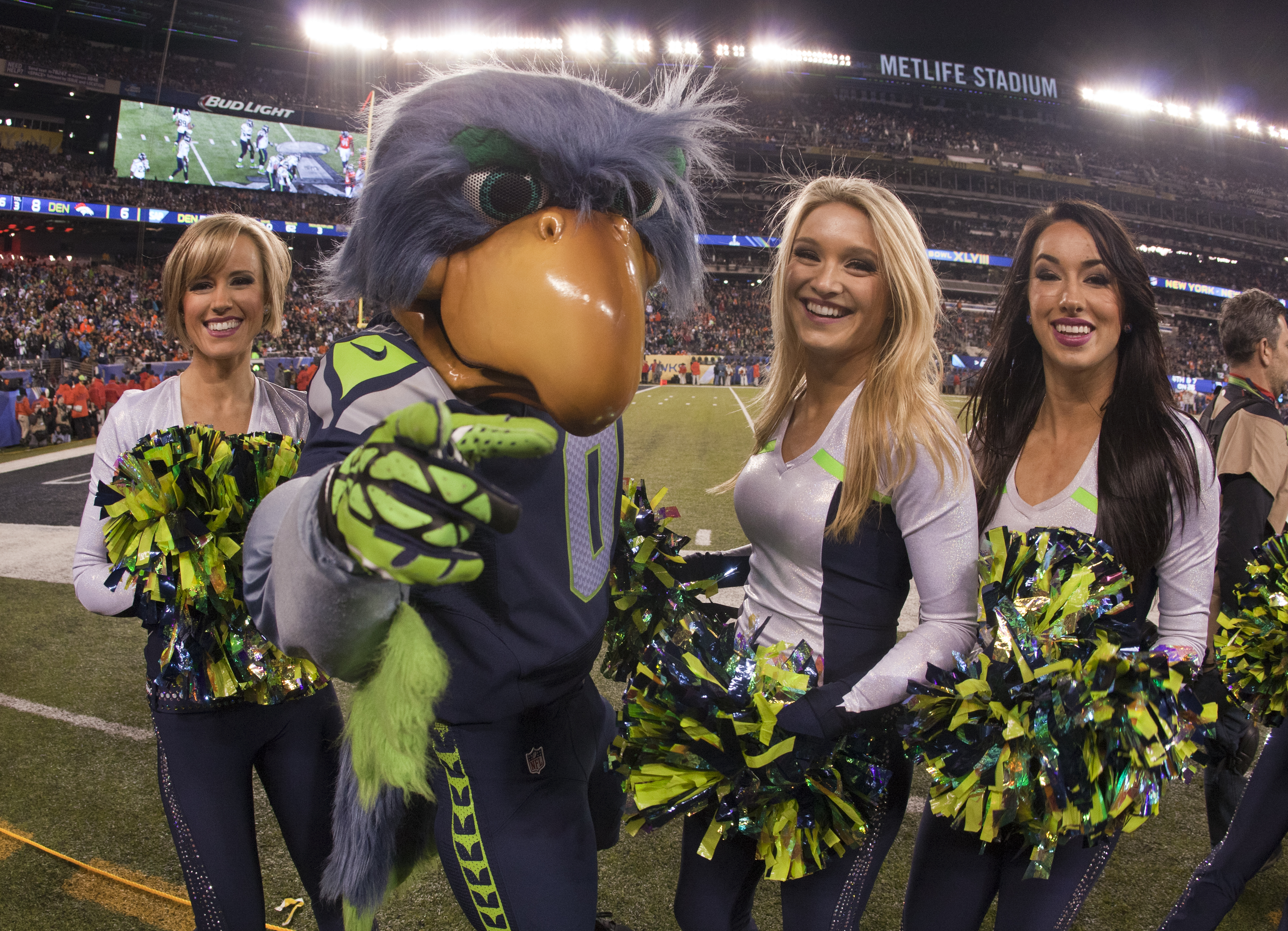 Seattle Seahawks mascot and cheerleaders at Super Bowl XLVIII.